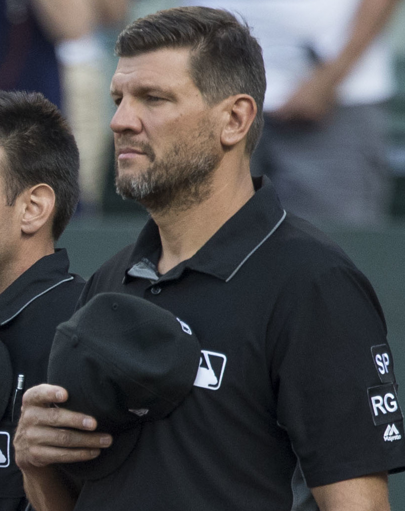 Rays at Orioles 6/30/17